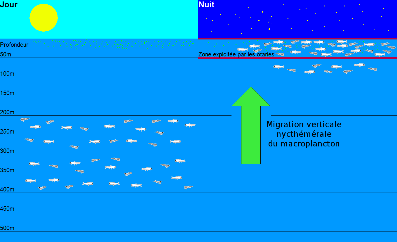 This diagram depicts the difference of distribution of macro-plankton in the ocean between the day and the night. On this diagram, we can see that macro-plankton takes refuge in the deep during the day (between 200m and 400m), because of the attacks of surface predators. During the night, macro-plankton goes up to the surface (between 0 and 100m) in order to feed about plankton. This diagram drew his inspiration from two articles : Pakhomov, E. A., Perissinotto, R., McQuaid, C. D., Comparative structure of the macro-zooplankton / micronekton communities of the Subtropical and Antarctic Polar Fronts. Marine Ecology Progress Series, 111, 155-169, 1994. Perissinotto, R., McQuaid, C.D., Land-based predator impact on vertically migrating zooplankton and micronekton advected to a Southern Ocean archipelago. Marine Ecology Progress Series, 80, 15-27, 1992. Macro-plankton has been symbolized by the shapes of lanternfishs (myctophidae) and pelagic shrimps. Plankton has been symbolized by green dots. The area, demarcated by two horizontal red lines, corresponds to the depth where the majority of the dives of the females of the subantarctic fur seals used to happen. This diagram has been made under Open Office Calc software, the shapes of lantern fishes, pelagic shrimps and stars has been drawn under Gimp software.